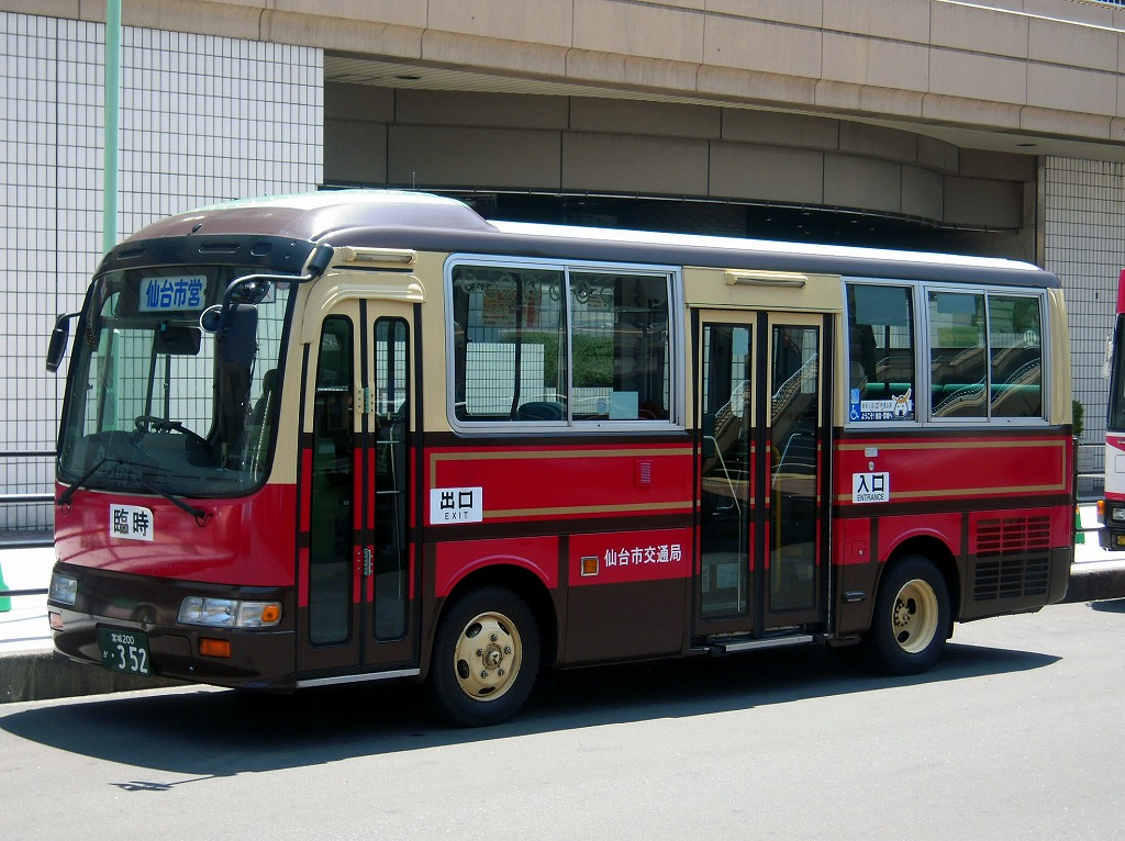 Sendai city bus HINO LIESSE(KK-RX4JFEA) Sendai cityloopbus "LOOPLE SENDAI" extra bus